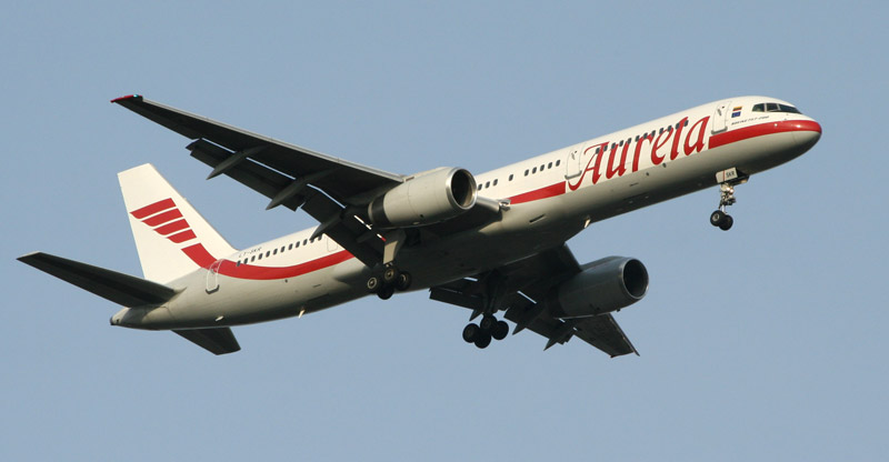 Aurela Boeing 727-200 landing at Vilnius International Airport (VNO)